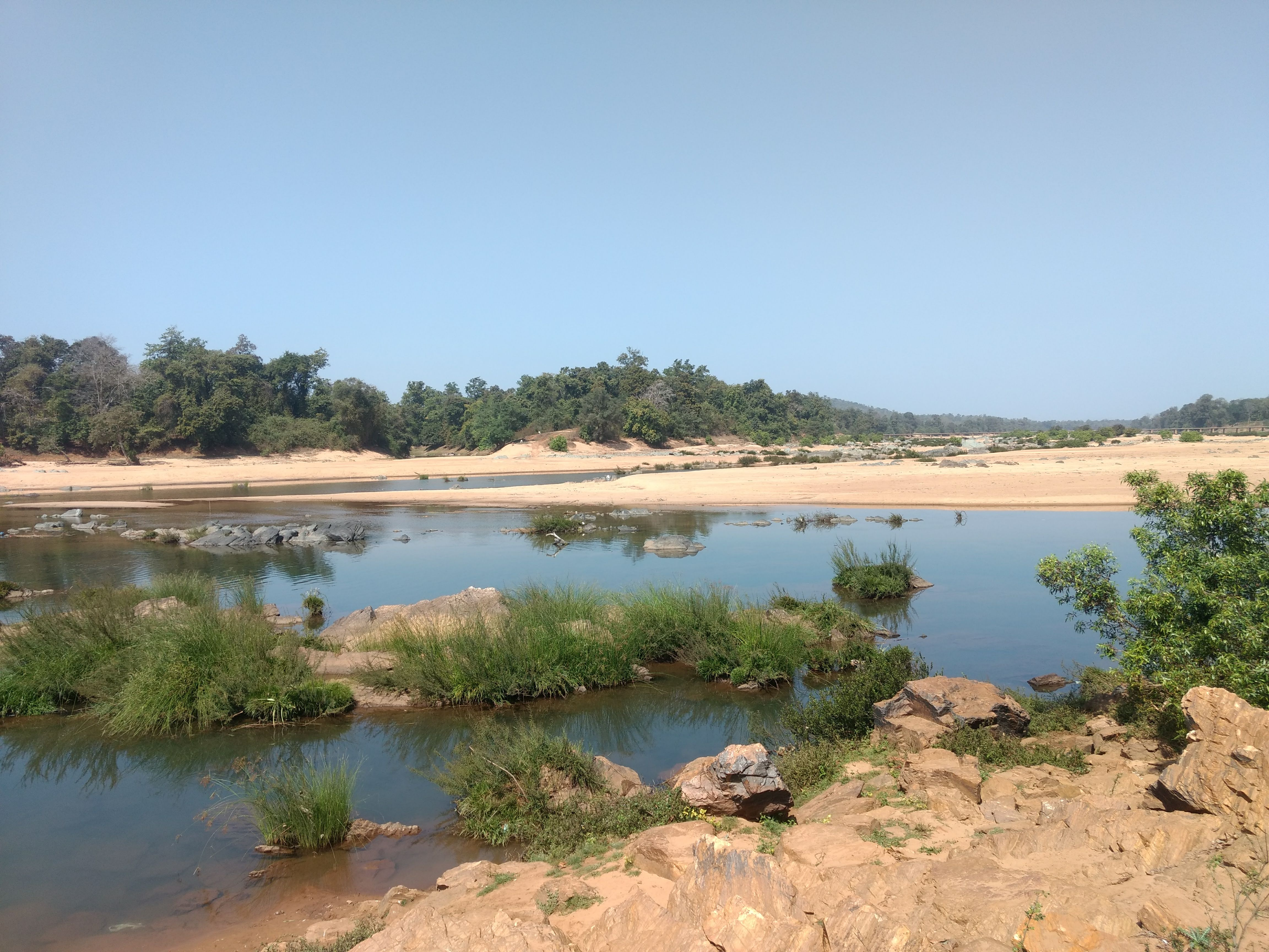 Kotri river at Bhamragad, just before it meets Indravati river.